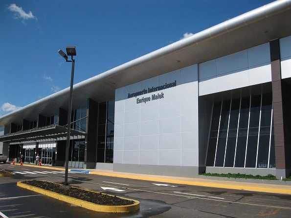 Enrique Malek Airport Chiriquí, Panamá